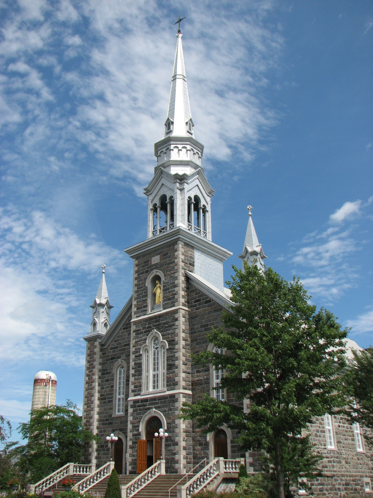 The church of Sainte-Sophie-de-Lévrard